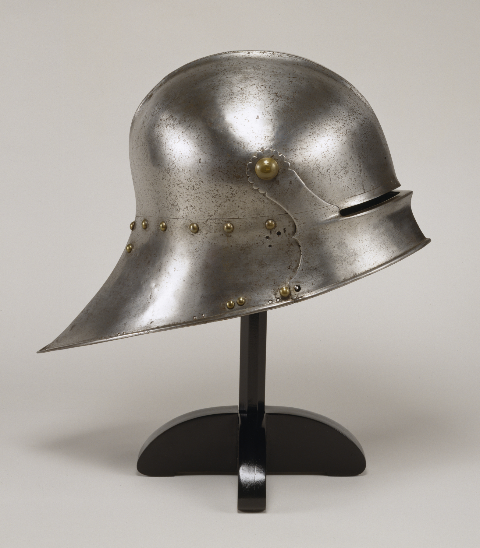 A work of art and a triumph of technology, the long-tailed sallet was the characteristic German war helmet of the later Middle Ages. This is a superb example. The flowing profile of the neck defense and mirror-like polish of the hammered, tempered steel could deflect the most formidable blows. The visor could be raised to provide better vision and easier breathing. It would have been used with a chin guard. Its weight at 4 lbs. 12 oz. is considerably less than that of its Italian counterpart. This sallet is from the Princes of Liechtenstein collection at Vaduz.